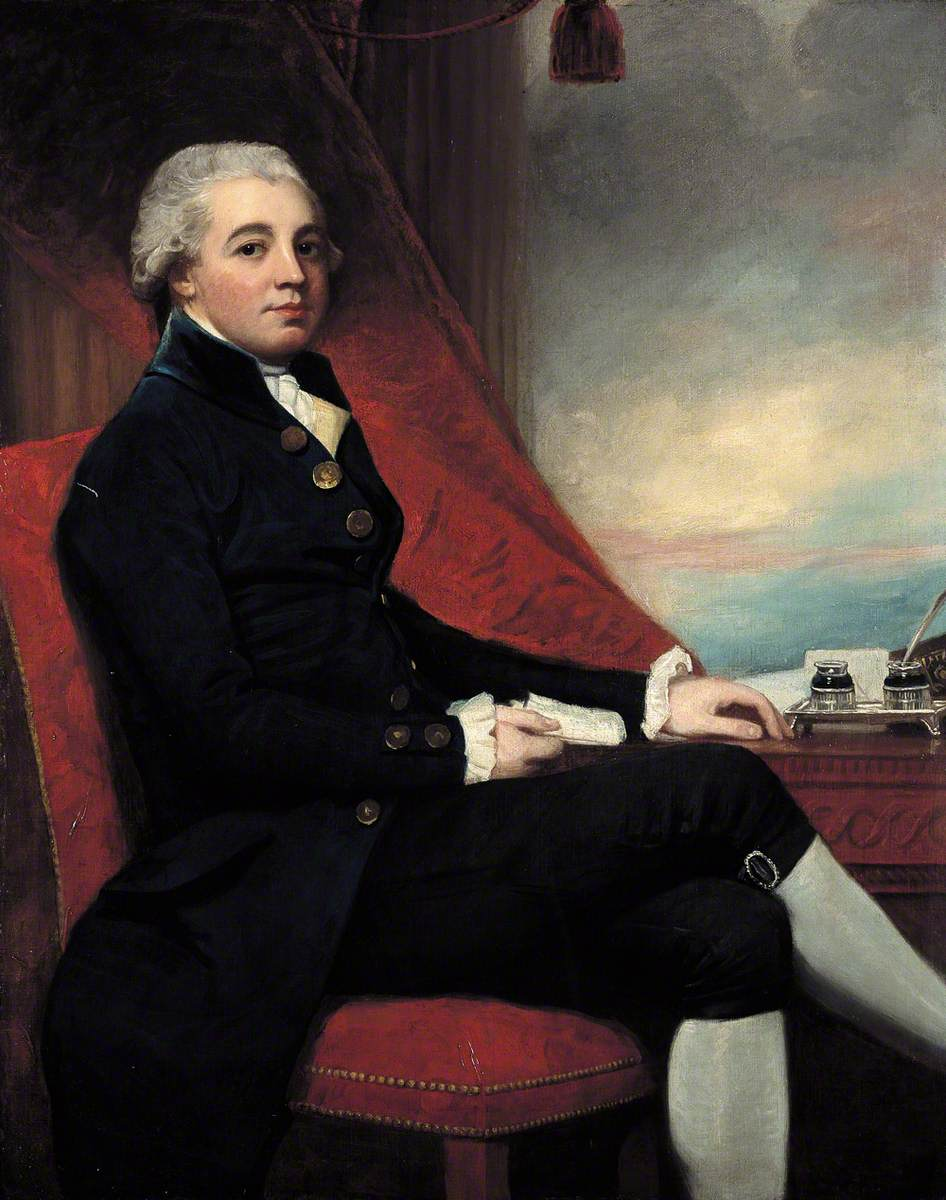 Portrait of Thomas Raikes (1741–1813), British merchant and Governor of the Bank of England.